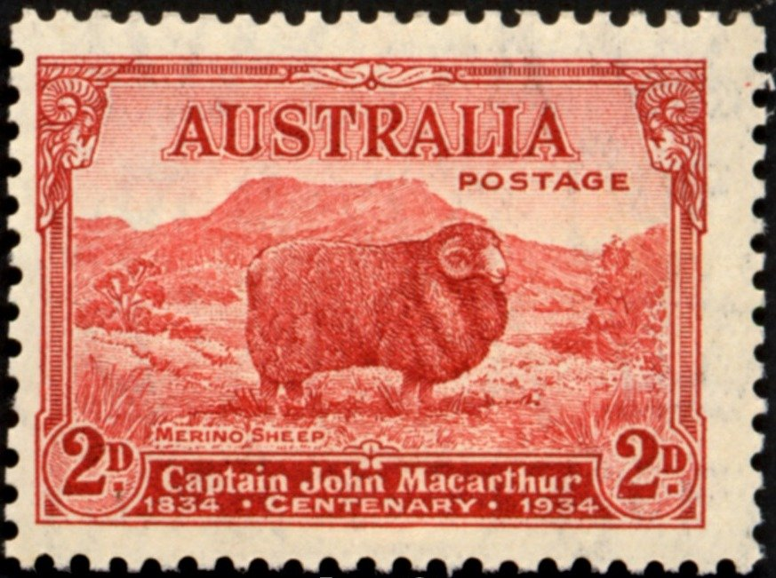 A scan of an Australian stamp of 1934 depicting a sheep to commemorate the centenary of death of Captain John Macarthur who introduced the merino into Australia